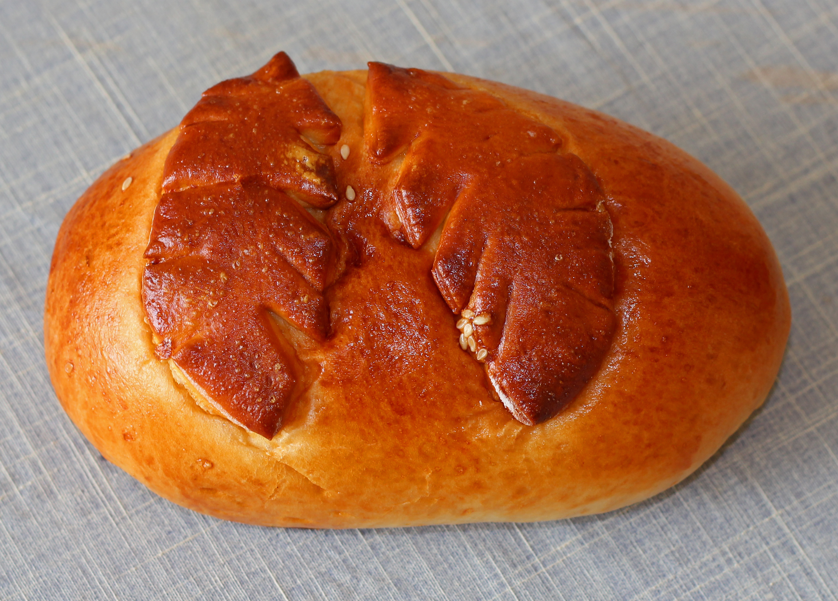 A Russian coulibiac filled with cabbage